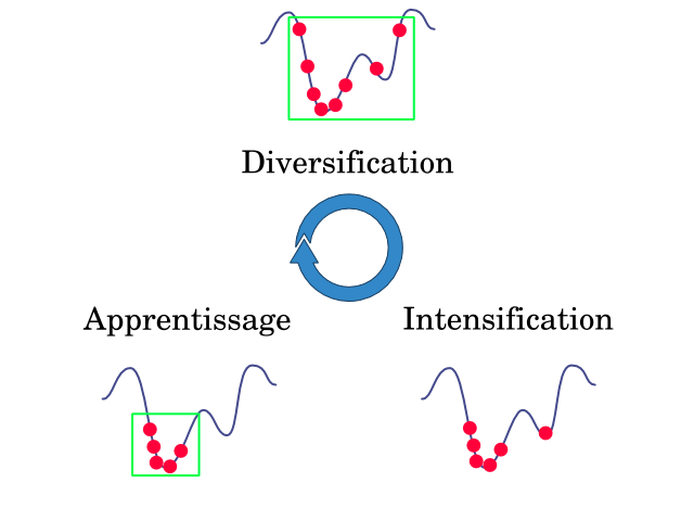 Three steps of a metaheuristic. The terms are in french. See the SVG source below, created with Inkscape.